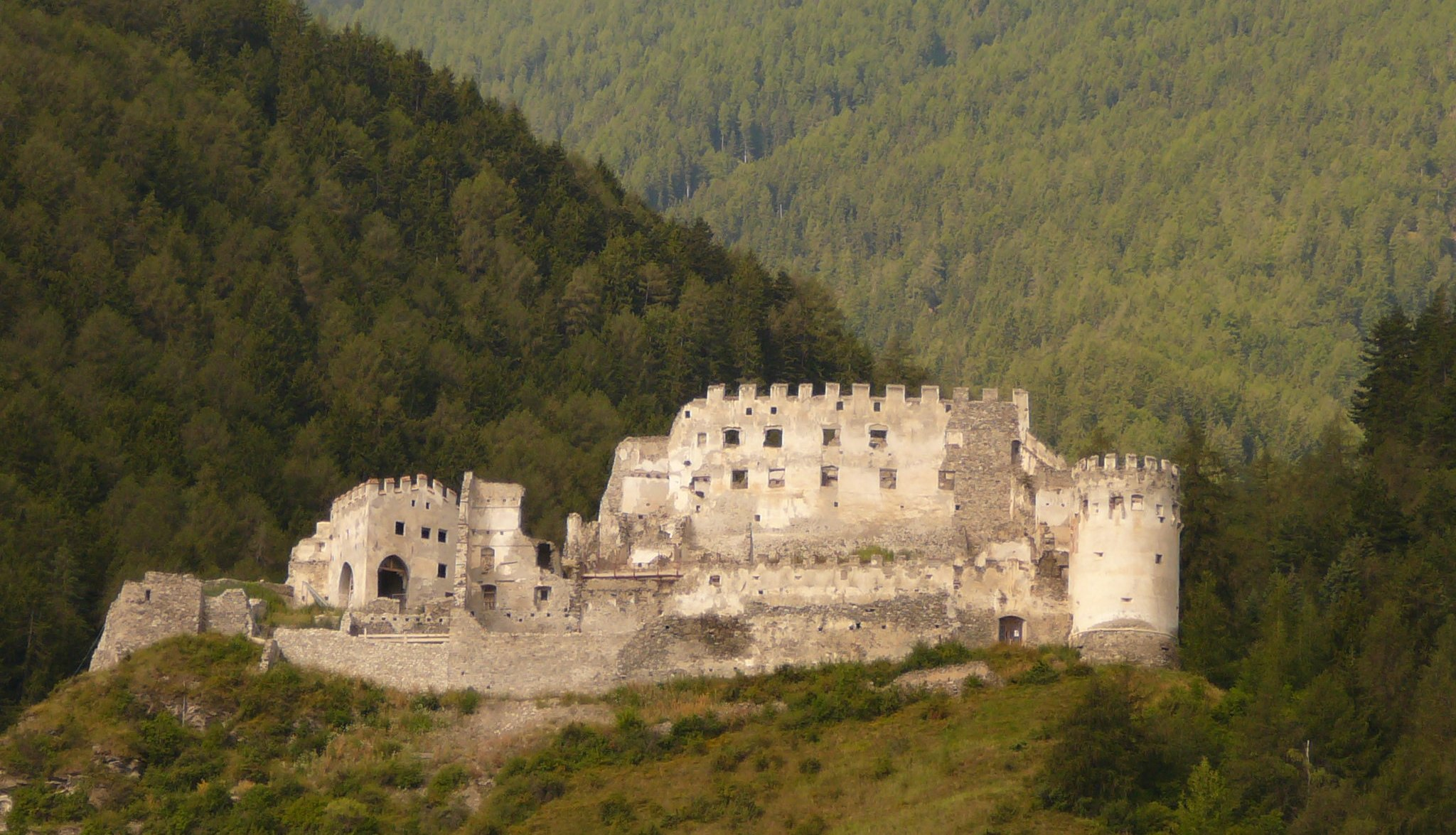 Lichtenberg Castle in the Vinschgau, South Tyrol.